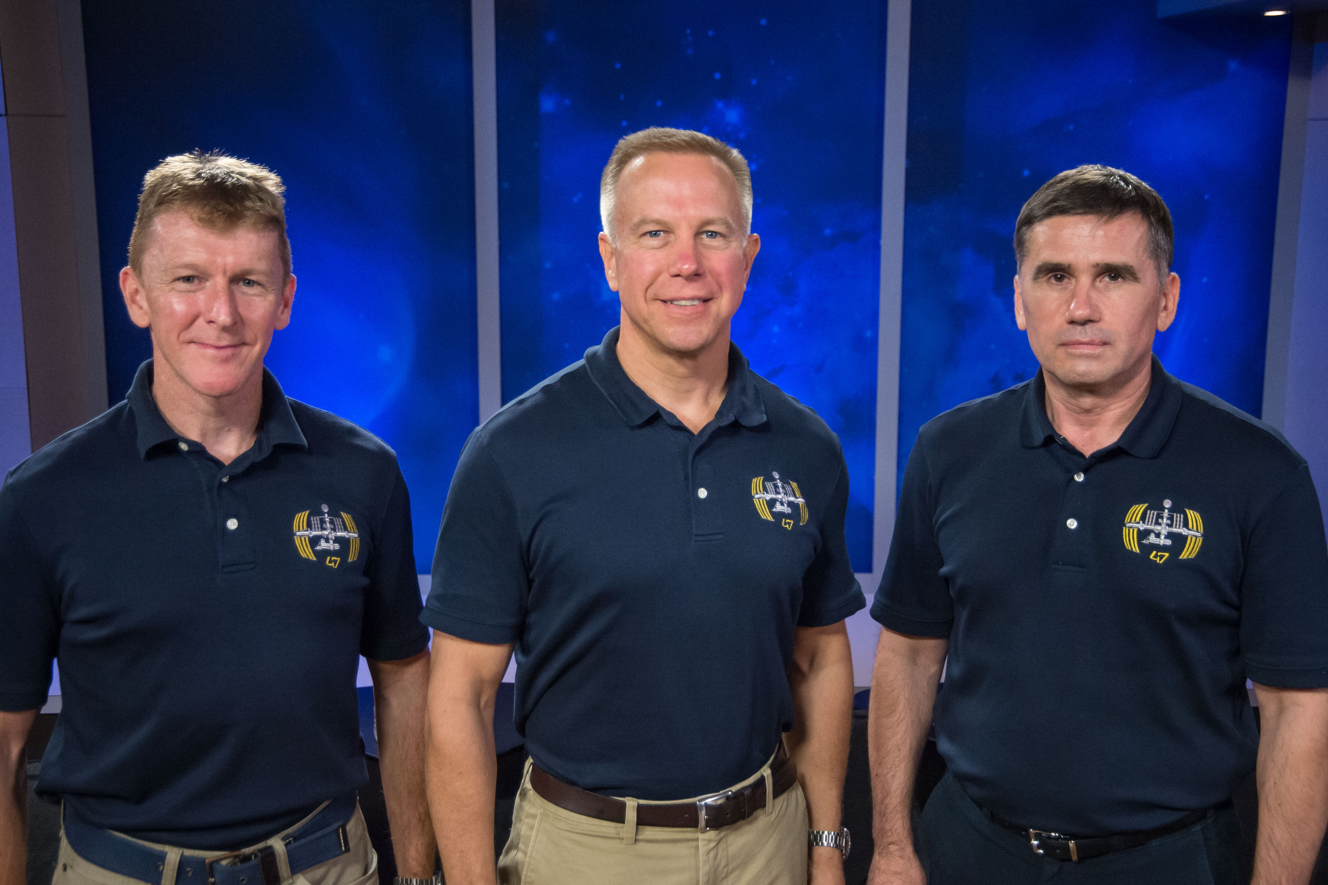 Expedition 46/47 press conference with crew Timonty Peake, Yuri Malenchenko, Timothy Kopra with moderator Jenny Knotts.